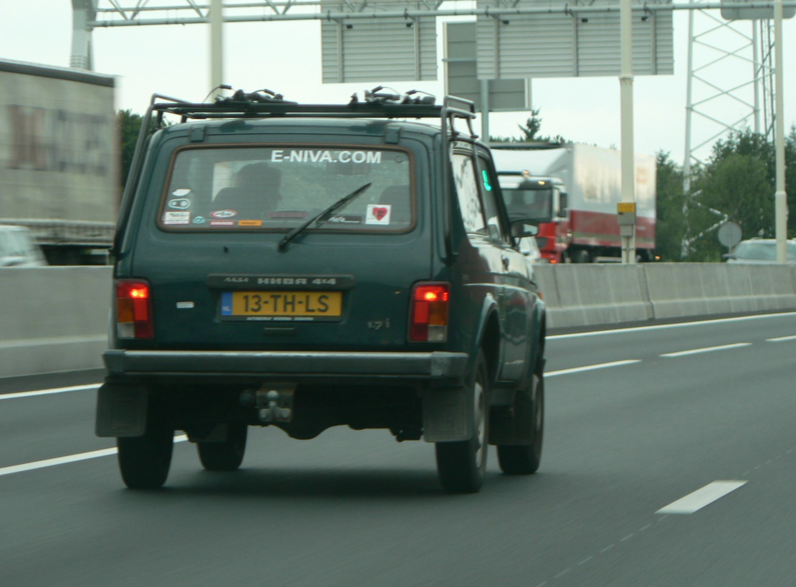 13-TH-LS Picture taken by my dad